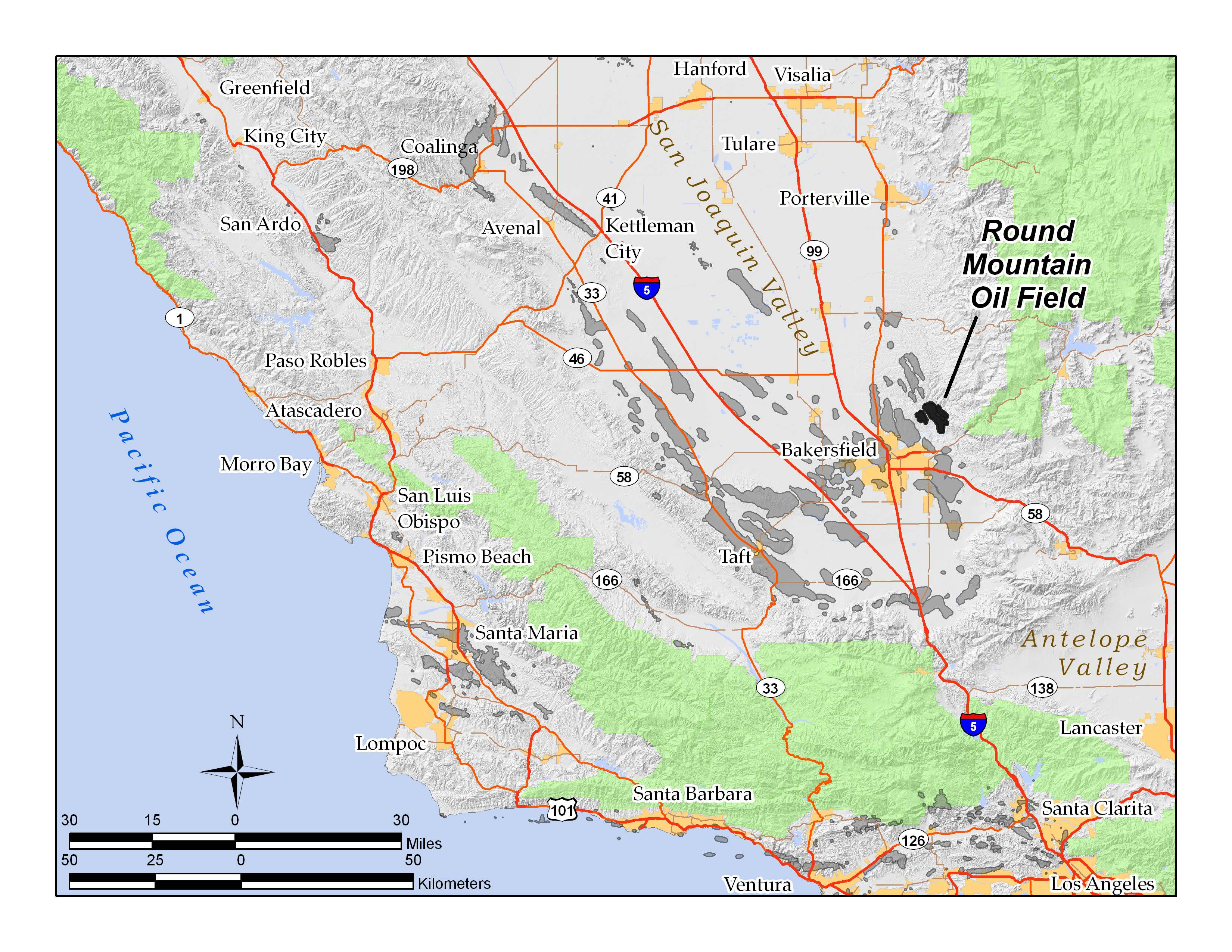 Round Mountain Oil Field, made by self using ArcGIS 9.2; all data shown on this map is in the public domain